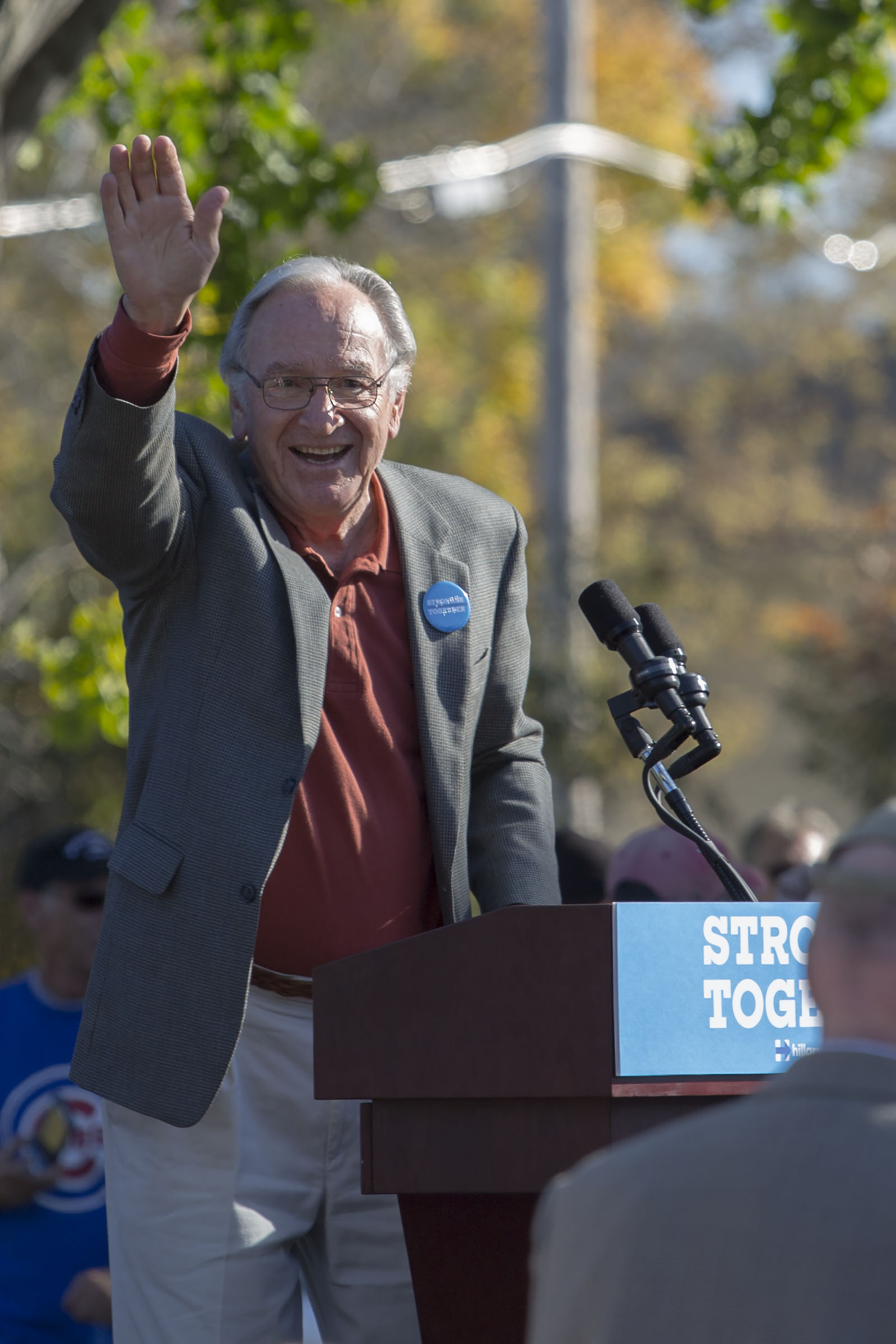 November 4th speeches in College Green Park, Iowa City, Iowa - encouraging everyone to get out and vote (for Hillary hopefully)